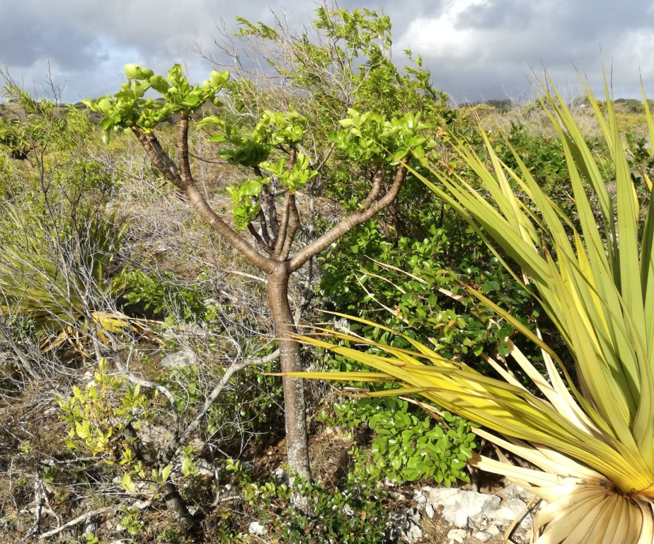 Francois Leguat Polyscias rodriguesiana